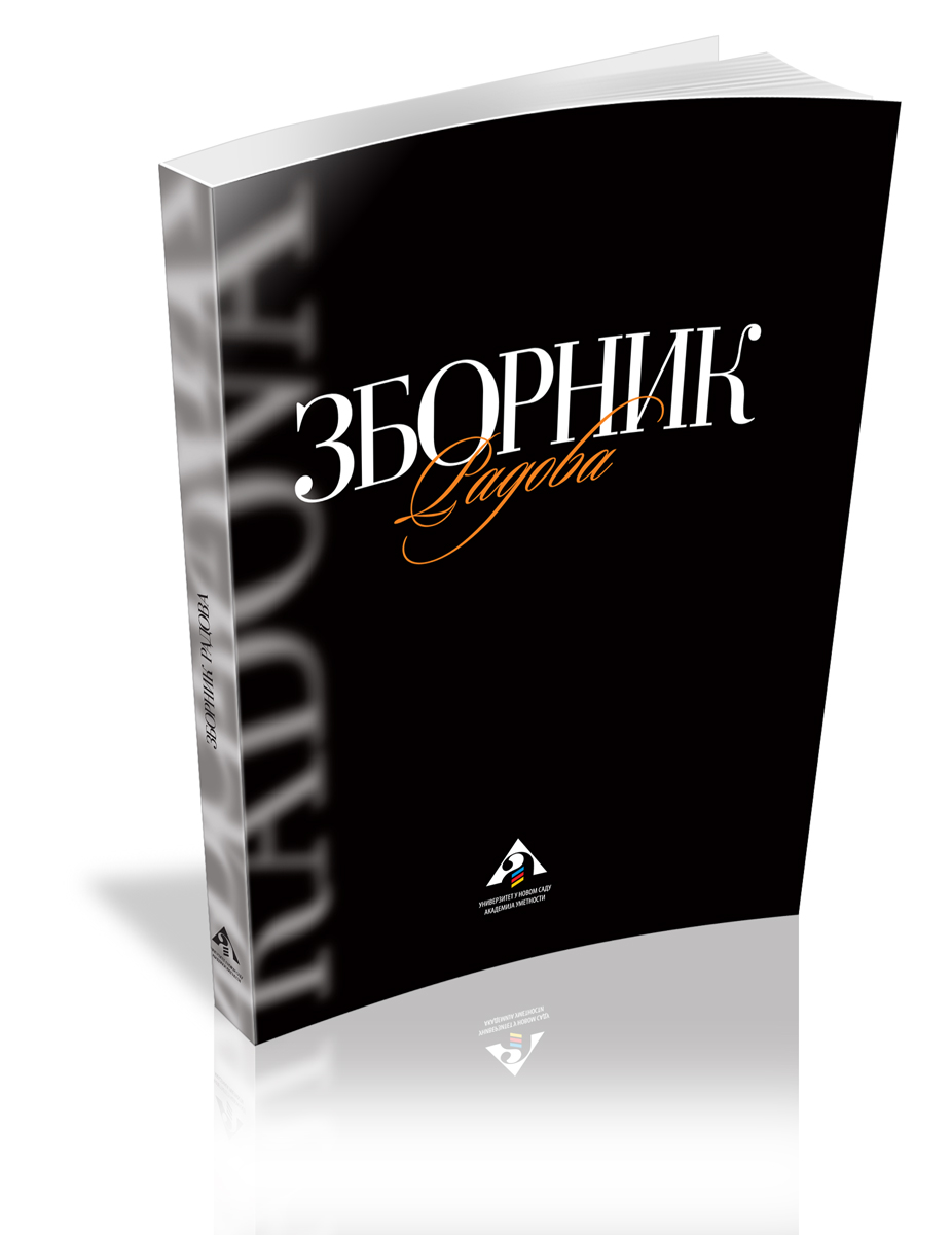 Zbornik Akademije umetnosti, Novi Sad, Serbia